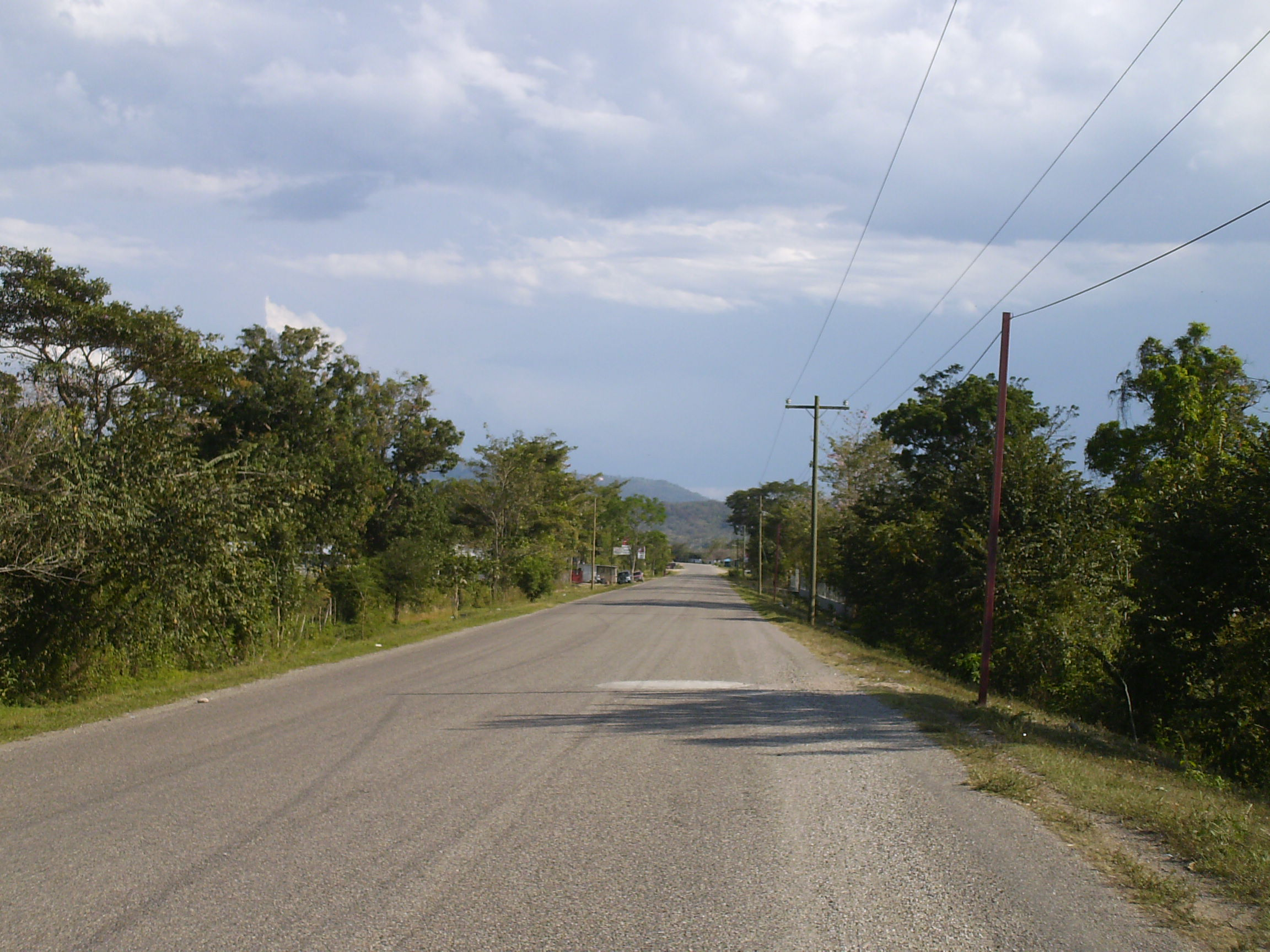 Las Flores, municipality in the Honduran department of Lempira.